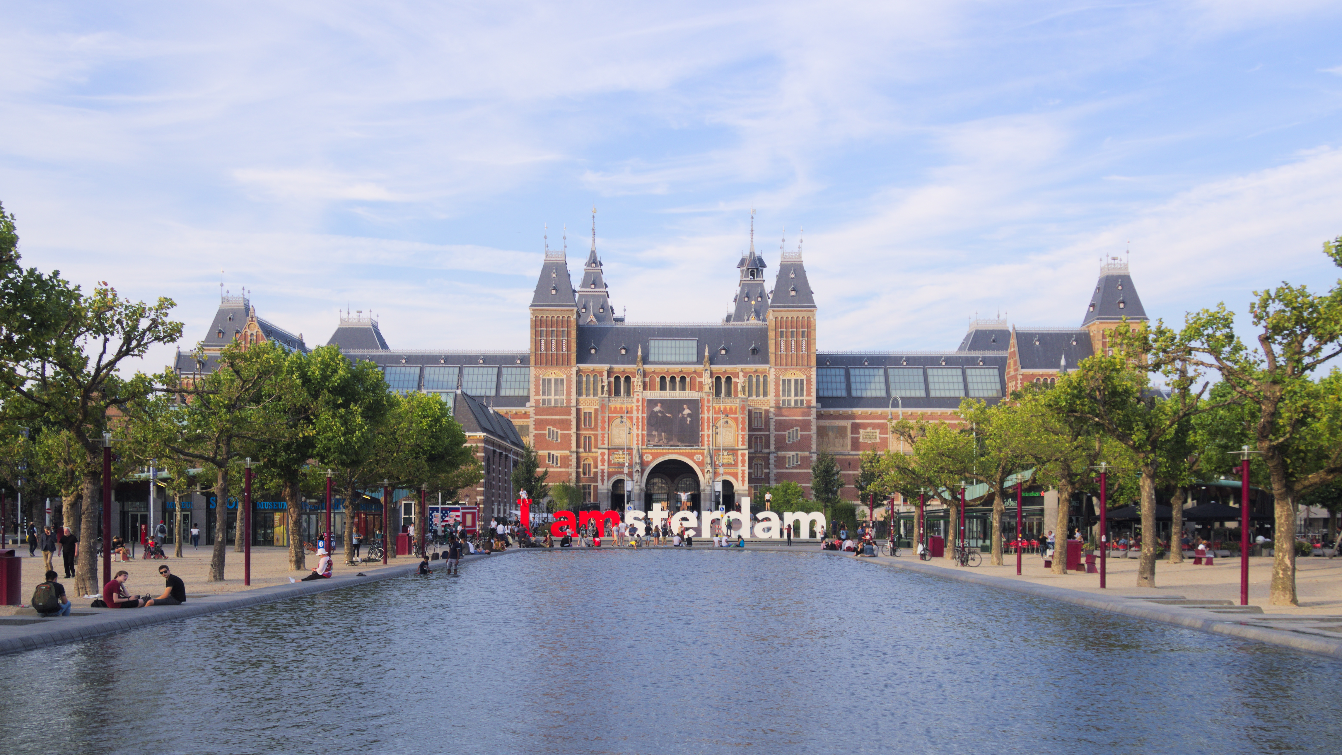 View of Rijksmuseum from across the pool at Museumplein.